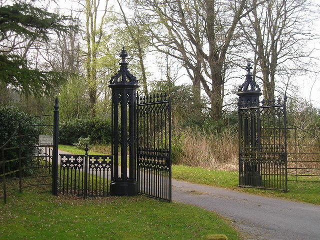 Corsock House: main gates